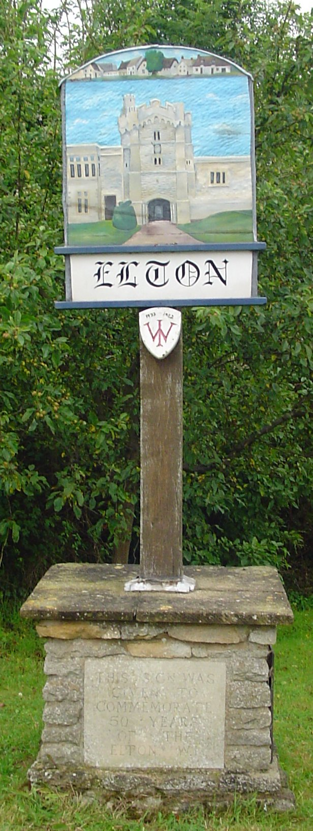 Signpost in Elton, Cambridgeshire